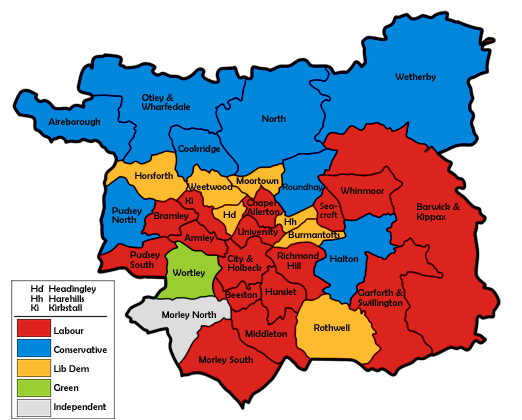 Ward map of Leeds City Council with political colouring for the 2003 election.